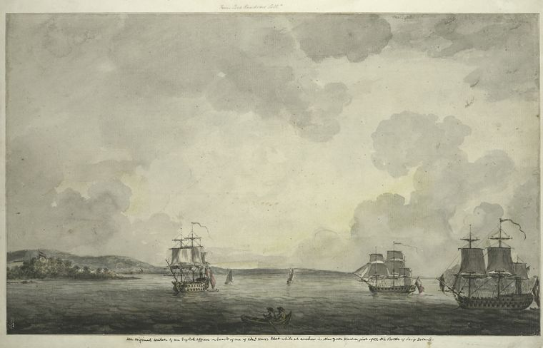 The British fleet in New York Harbor just after the Battle of Long Island